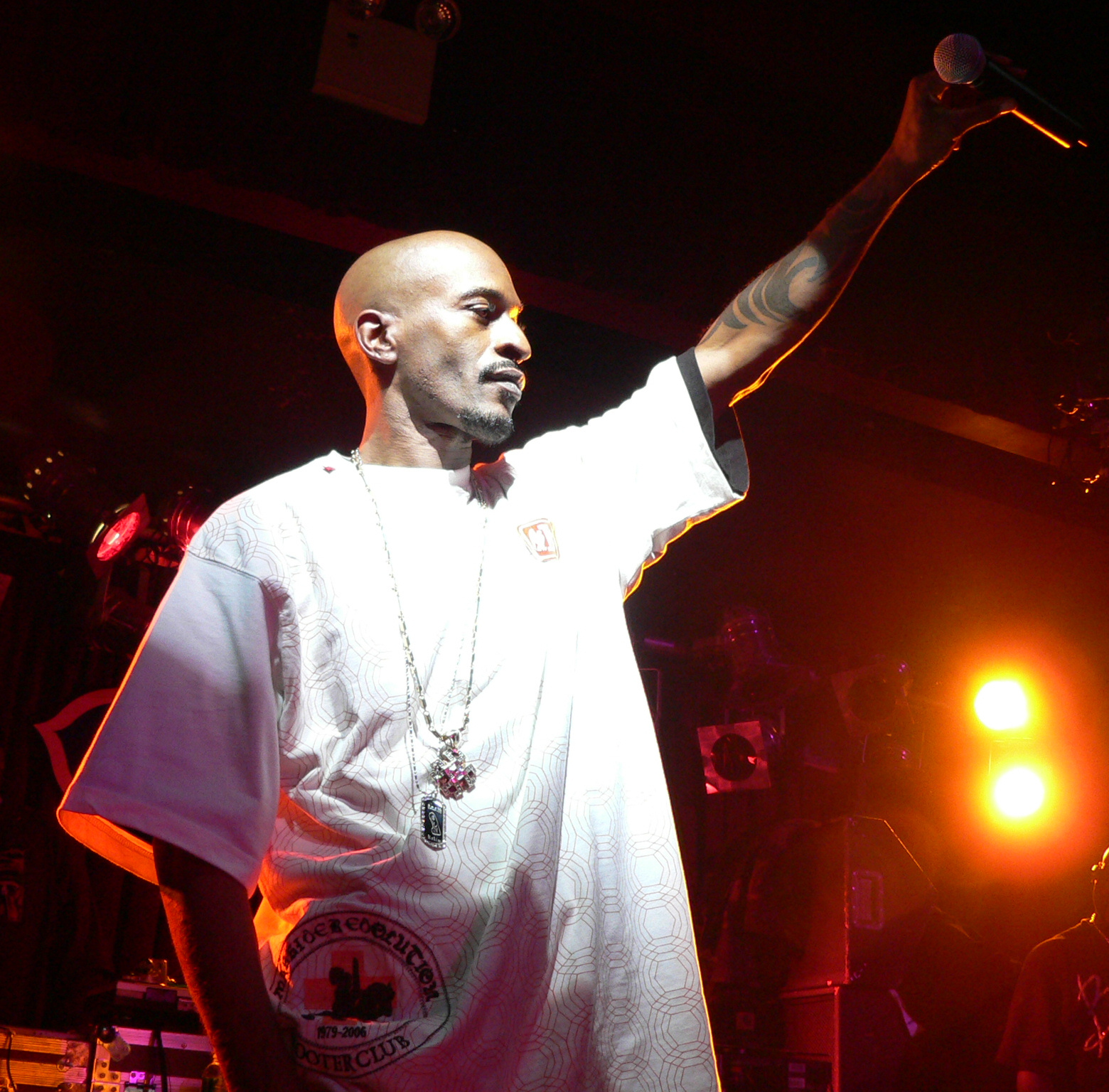 New York rapper Rakim. I took this photo on November 25, 2006 at B.B. Kings in New York City. Here's a link to the rest of my Rakim photos from the concert - You must attribute this work to .